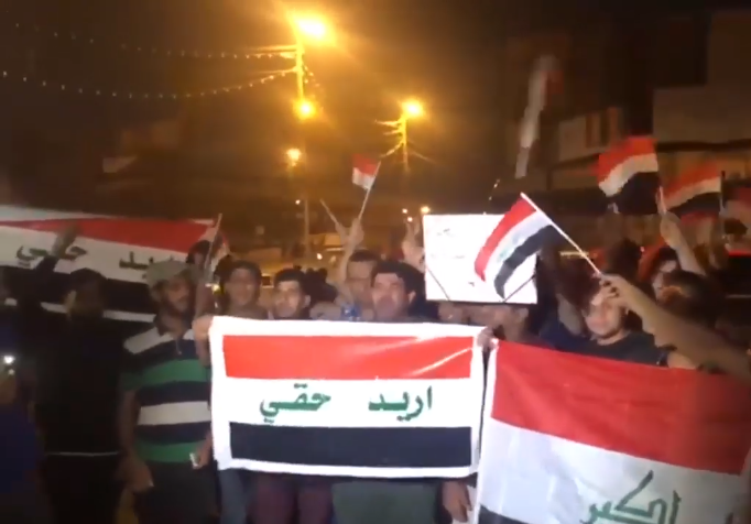 Demonstrators in Tahrir Square, Baghdad - Oct 24, 2019. The middle person holds an Iraqi flag, but changed the takbīr (Allahu akbar, "God is [the] greatest") in green Kufic script (centered on the white stripe ) with slogan "I Want my Right".